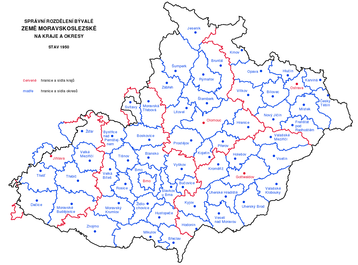 Administrative division of the former autonomous province Moravia and Silesia (1950)